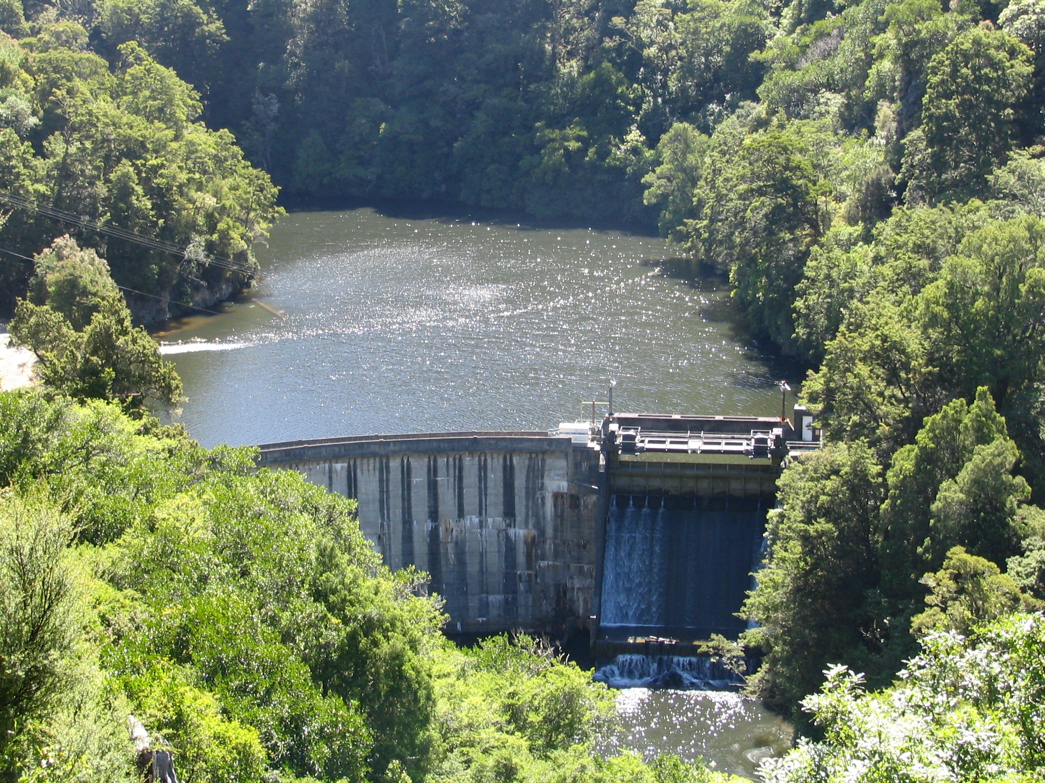 Dam on the Waipori River (query dam no. 4), from Waipori Falls Road, between Berwick and Waipori Falls, Otago, New Zealand.